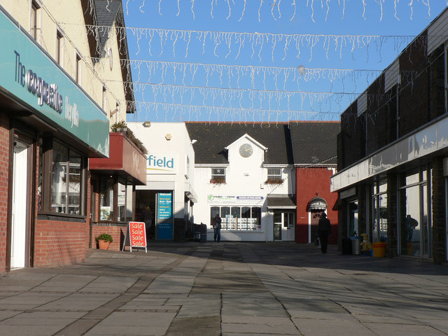 Pound Field, Llantwit Major Known locally as The Precinct, the area holds a further selection of outlets with more to the rear of the main shopping area on the main road.